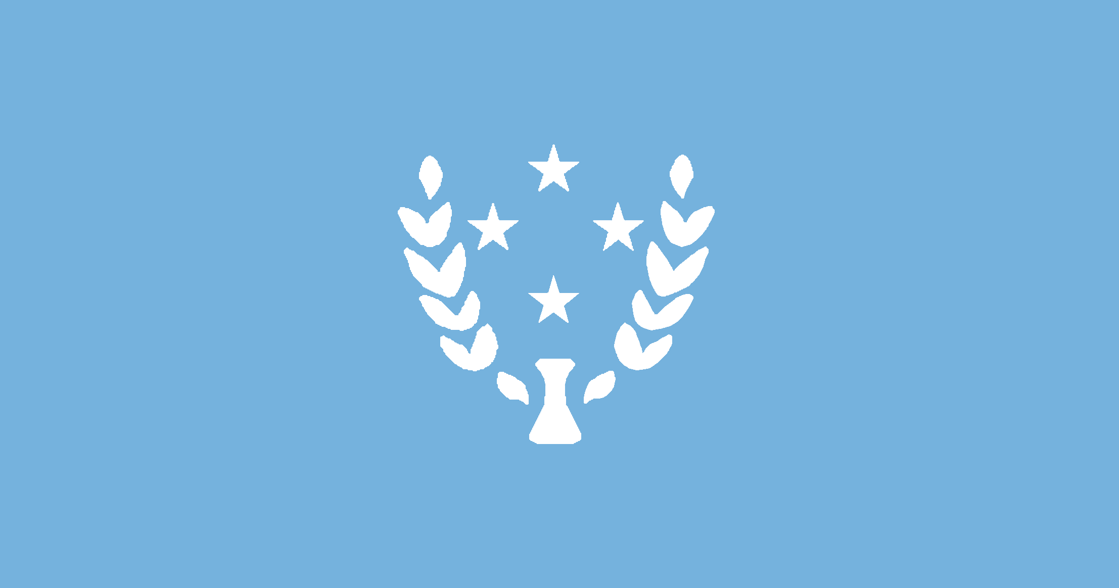 Flag of Kosrae,Micronesia